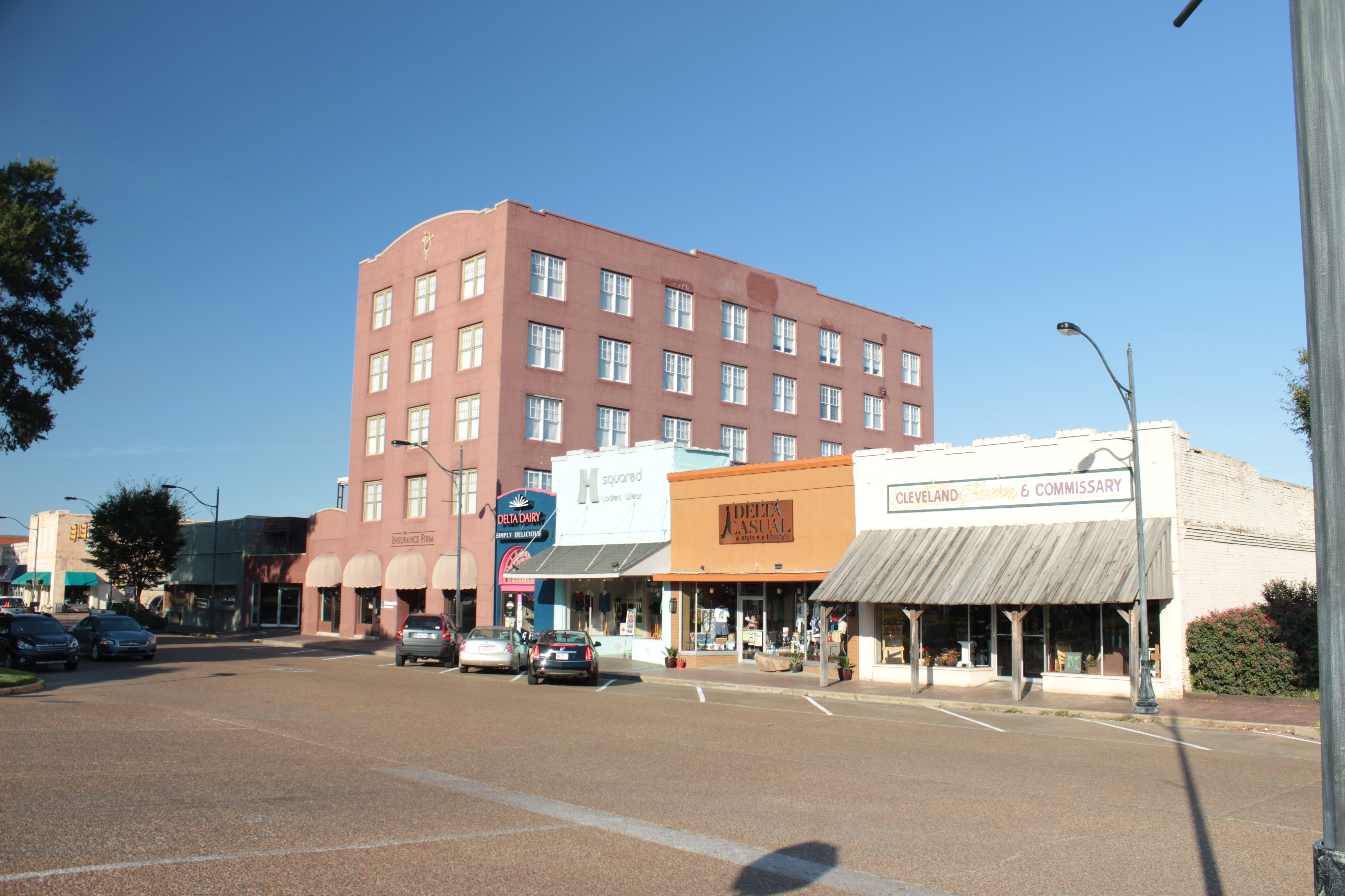 Downtown Cleveland Historic District, Roughly bounded by Bolivar Ave., 1 block north of 1st St., Commerce Ave., and Collins St.; also 201 S. Court St. and 200-215 N. Pearman Ave. Cleveland